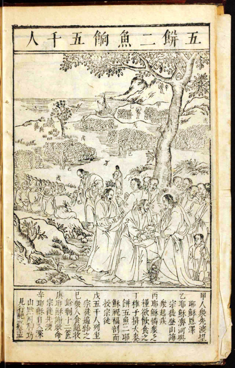 This illustrated volume of the life of Christ was published in China in 1637 by the missionary Giulio Aleni